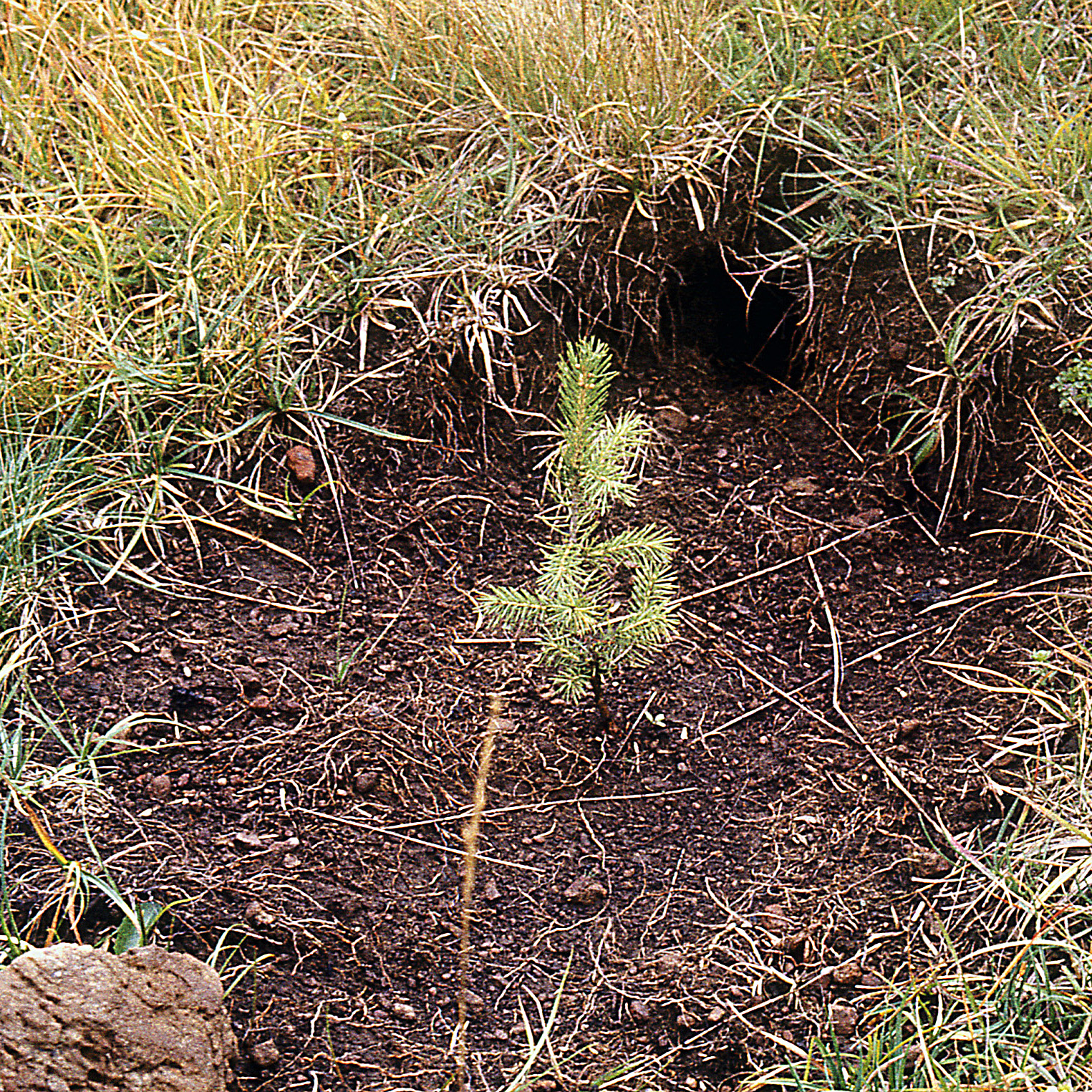 Reforestation with spruce (Picea abies) in Pester (Serbia)